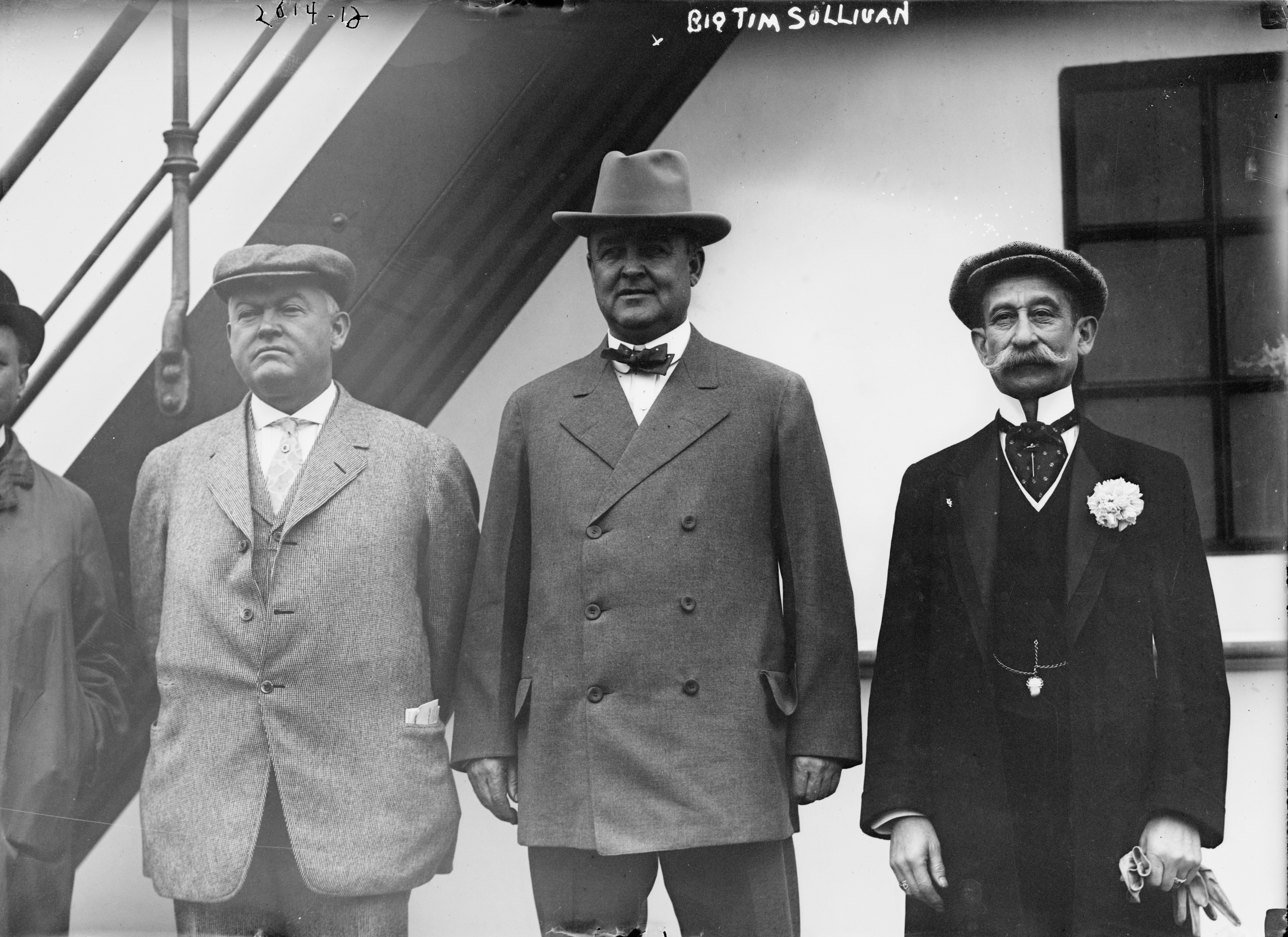 Title: "Big Tim" Sullivan Abstract/medium: 1 negative : glass ; 5 x 7 in. or smaller.